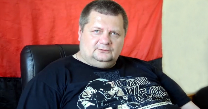 Igor Mosiychuk, press-officer of the special police regiment «Azov». Elected member of the Kiev city council.